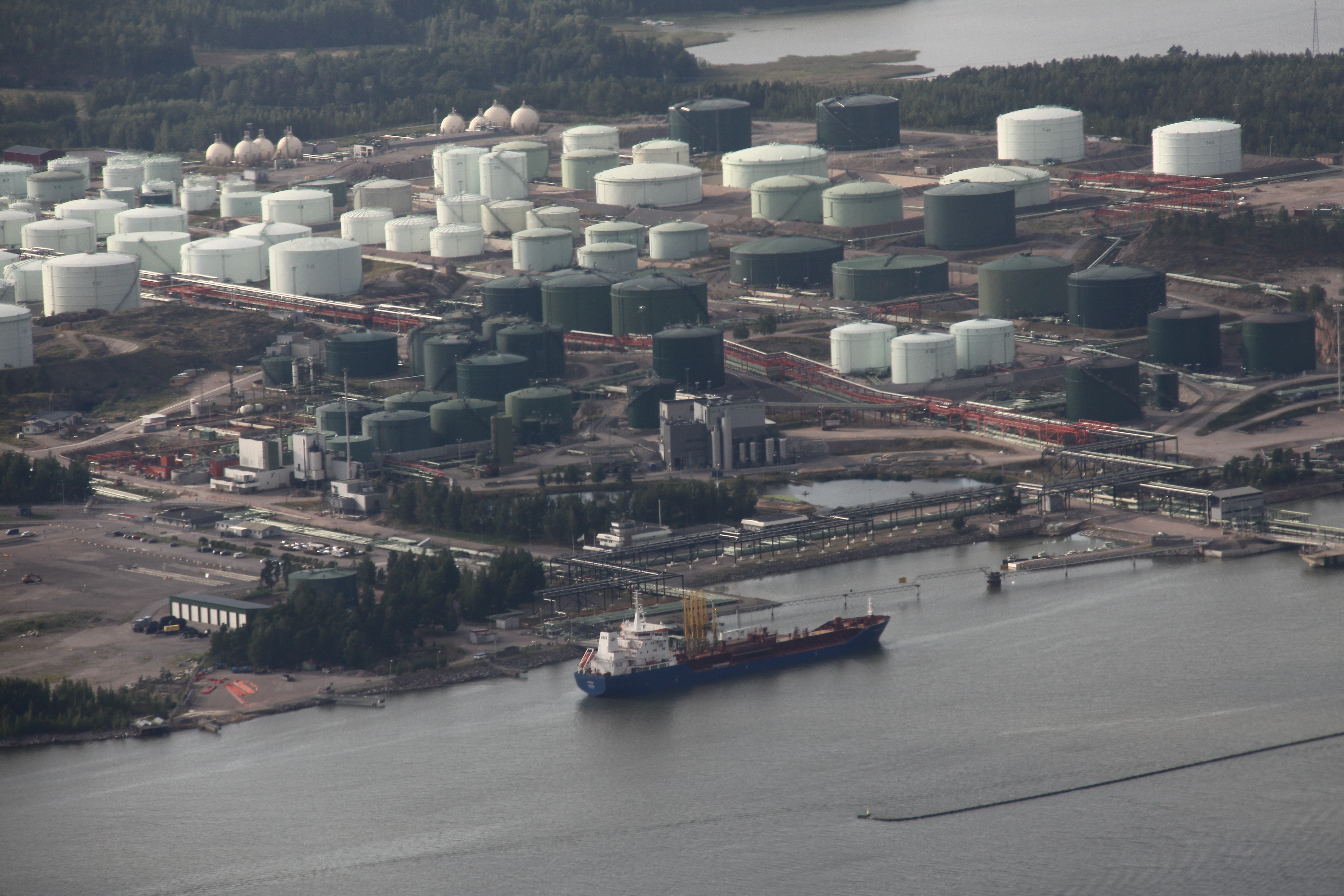 Porvoo refinery from air in Finland